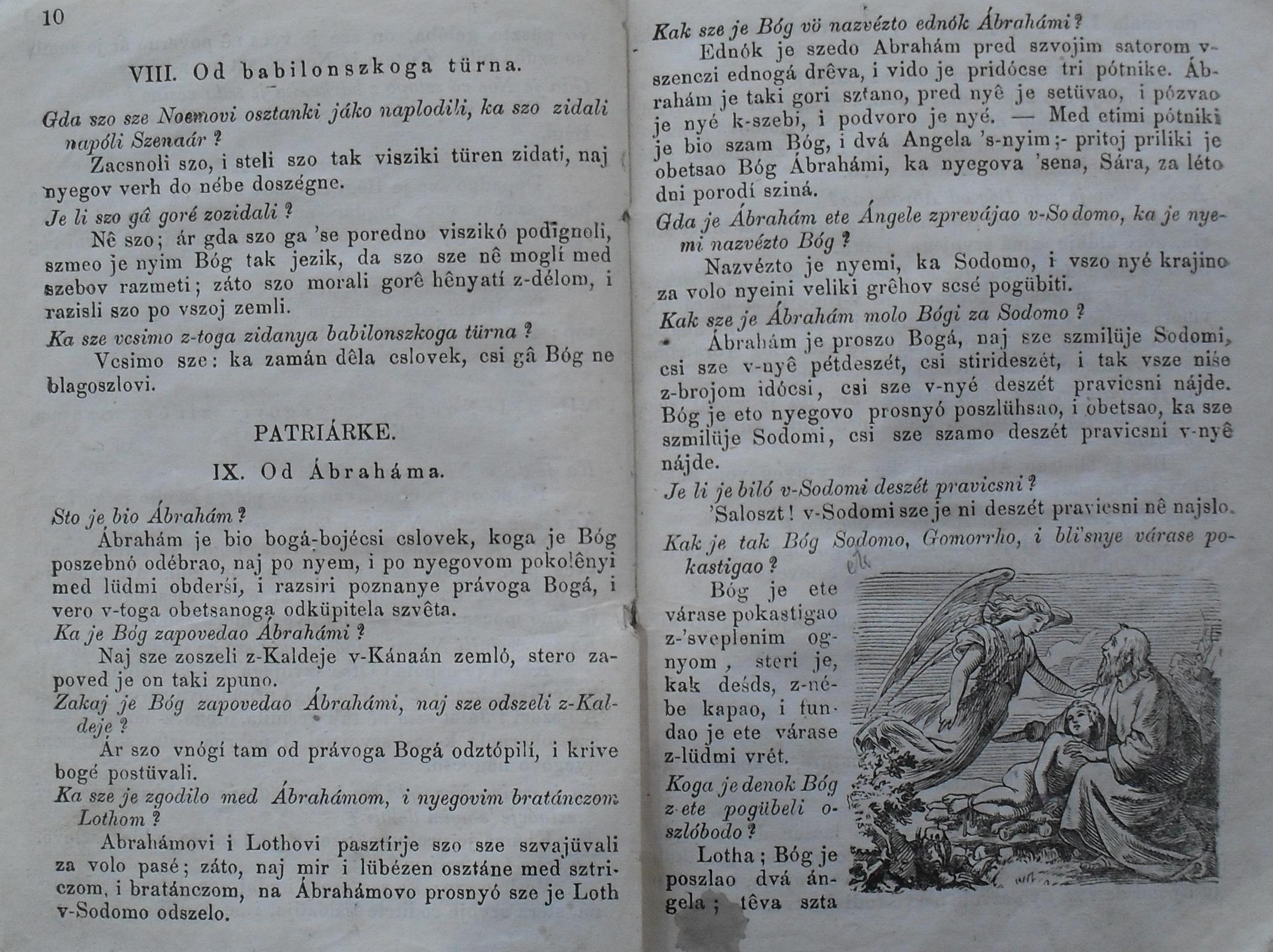 The angel prevents the sacrifice of Isaac, detail from prekmurian (prekmurščina) book Zgodbe Sztároga i Nóvoga Zákona, 1873 of István Szelmár